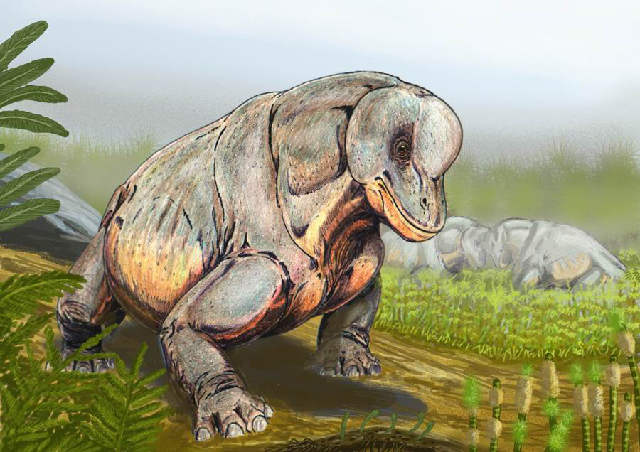 Tapinocephalus, my own work